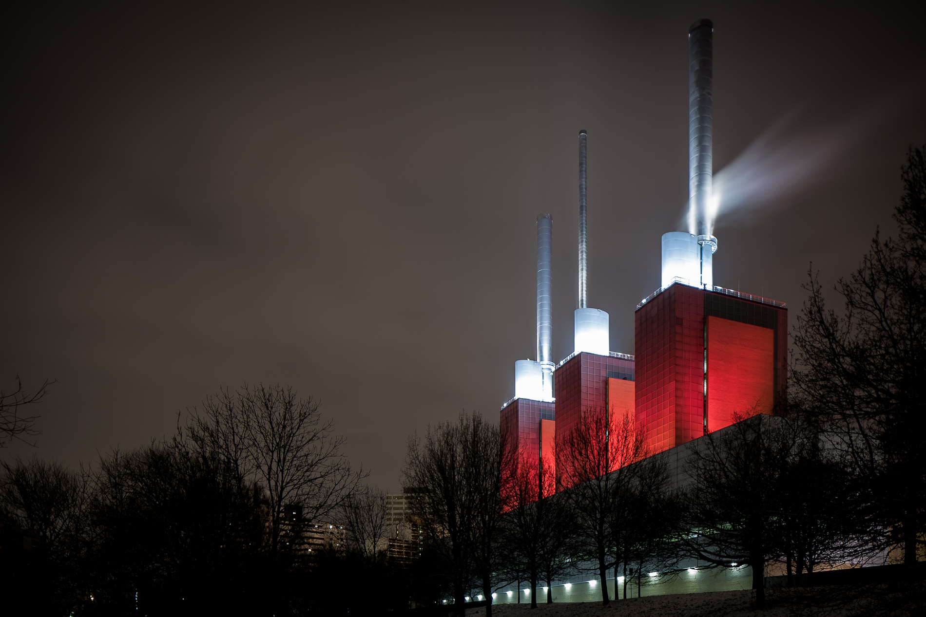 Combined heat and power station in Hanover-Linden, Germany. The buildung was illuminated in red to celebrate a new gas turbine. The turbine was put into service in January 2013, the illumination lasted for four nights.